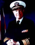 Rear Admiral Levering Smith. Director of Strategic Systems Project Office (SSPO)